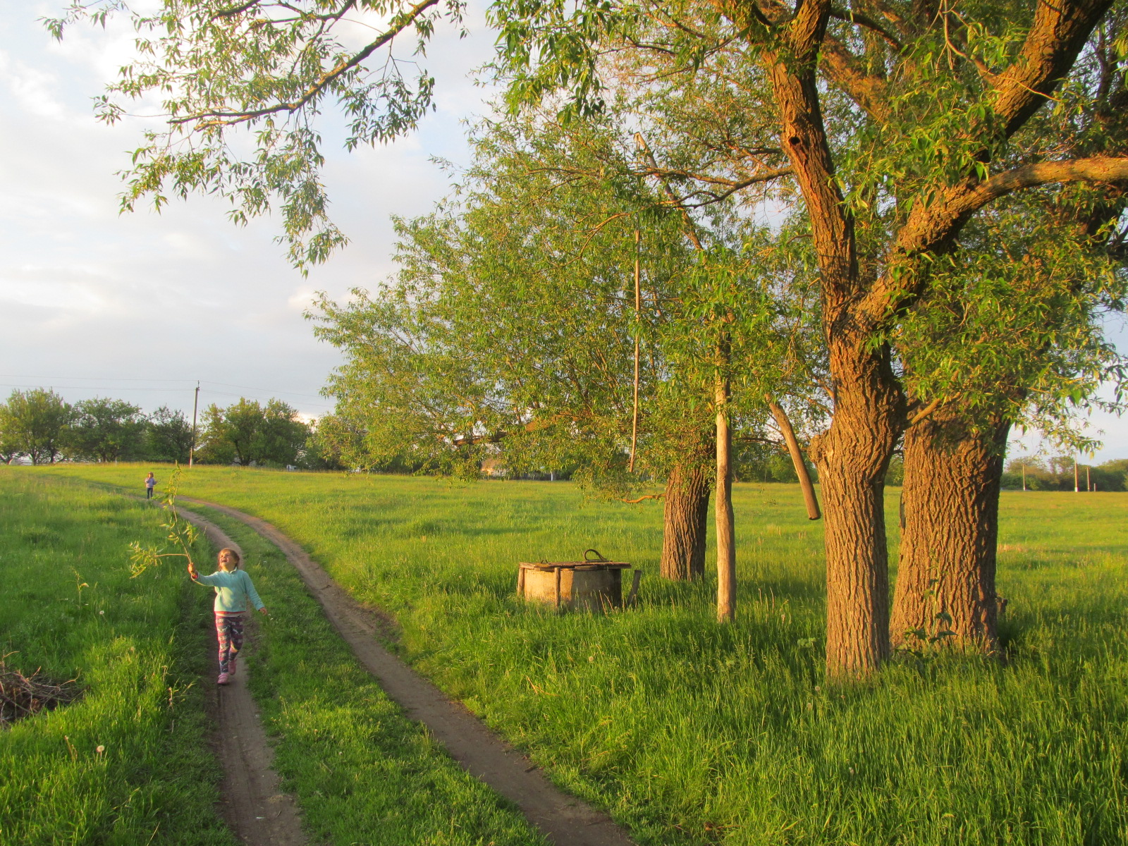 Well in the center of Ukrainka village, Zaporozhye region, Ukraine